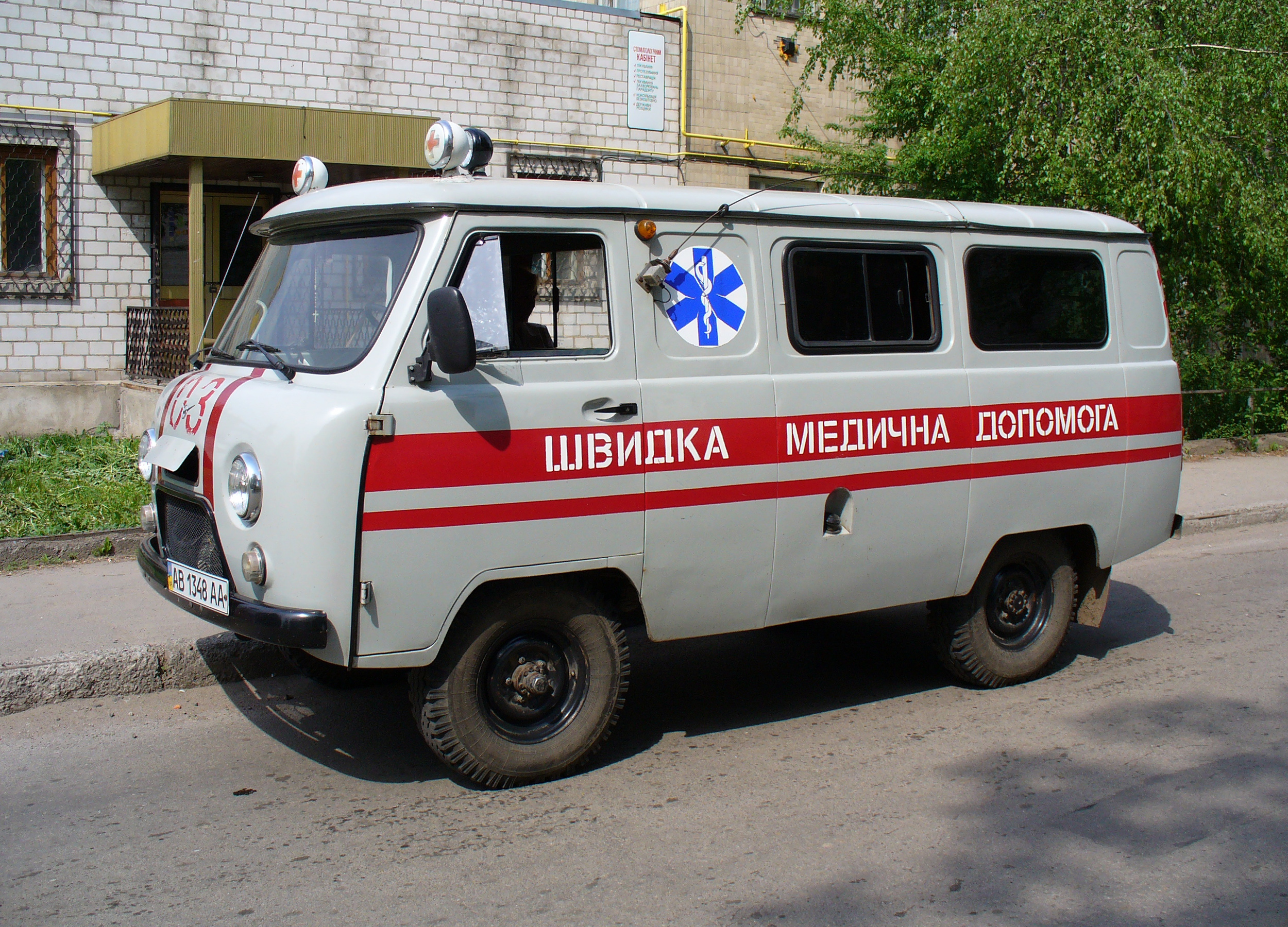 UAZ-452 (it is UAZ-3962 modification). Used in emergency medical services (EMS). Ukraine, Vinnitsa.